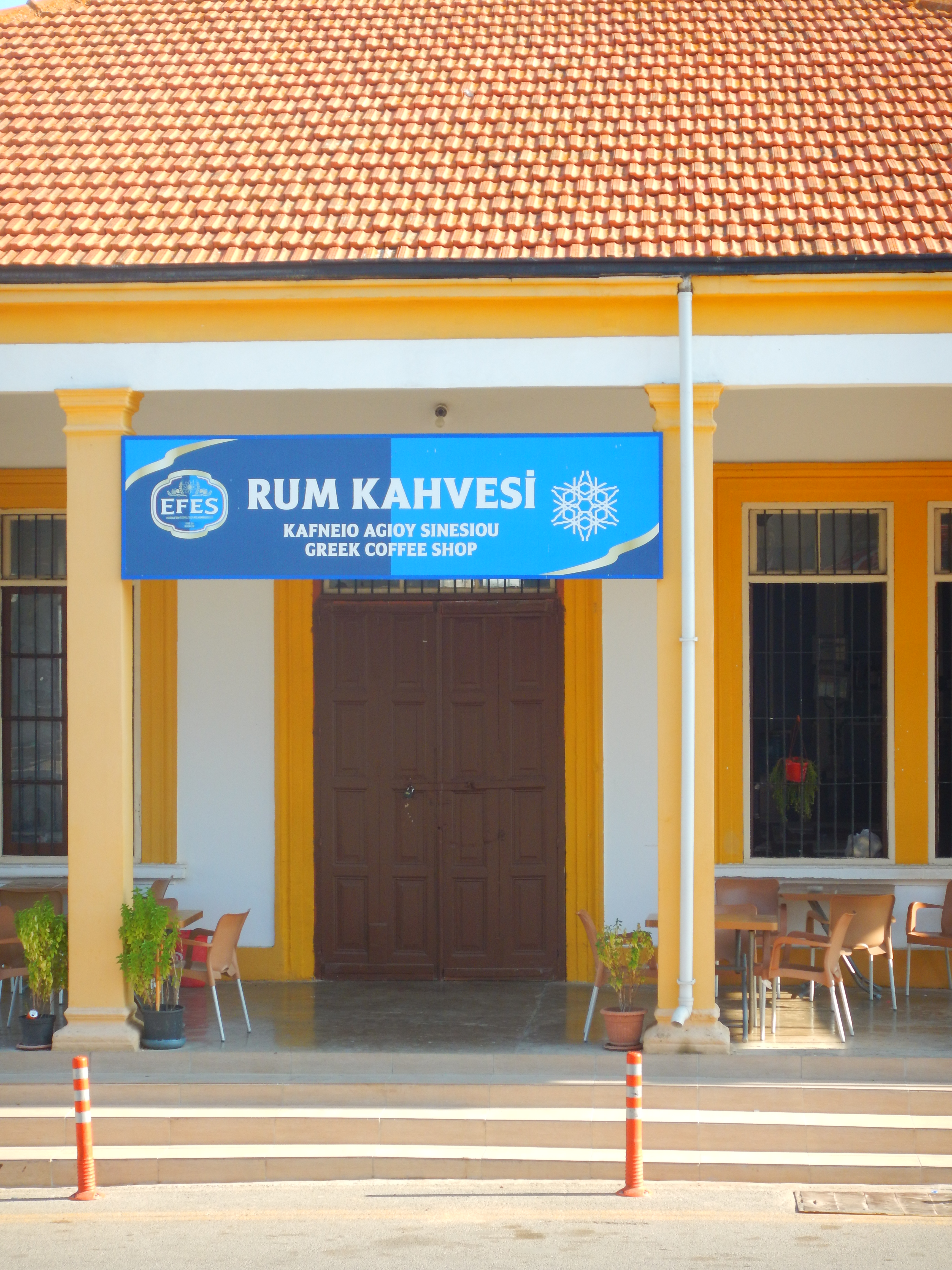 Particular of the Greek Cafe at Rizokarpaso (Dipkarpaz) in Cyprus